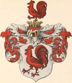 Klingspor, Carl Arvid von: The baltic roll of arms, Stockholm 1882